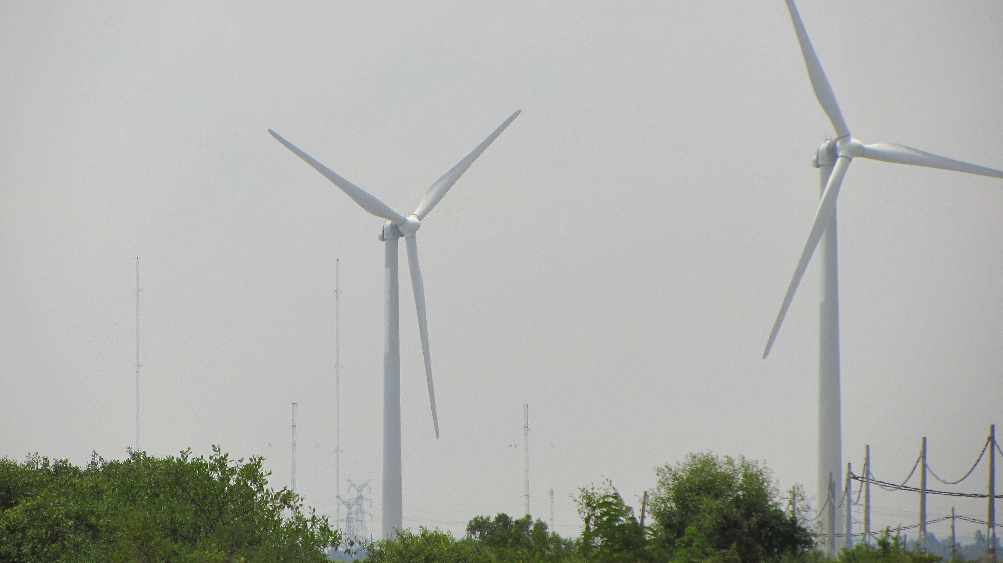 Two of the seven Leitner Shriram LTW-77-1.5 wind turbines of the Uppudaluwa Wind Farm in the Puttalam District of Sri Lanka.